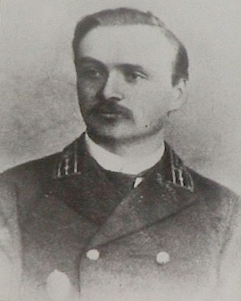 Wacław Marian Łopuszyński (b. 27 July 1856 in Tykocin - d. 16 February 1929 in Murowana Goślina) Polish inventor, designer of locomotives.